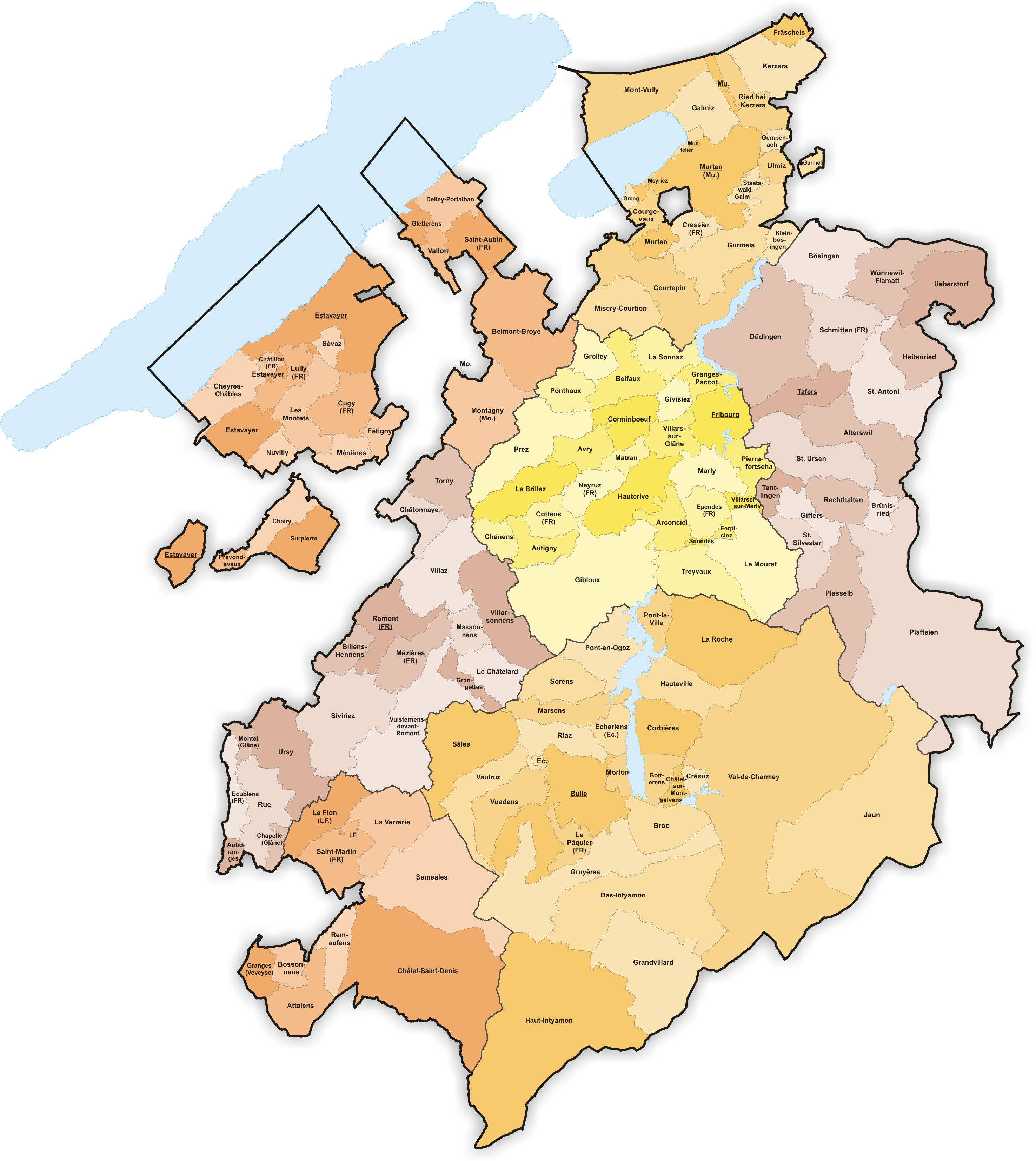 Municipalities in Canton Freiburg